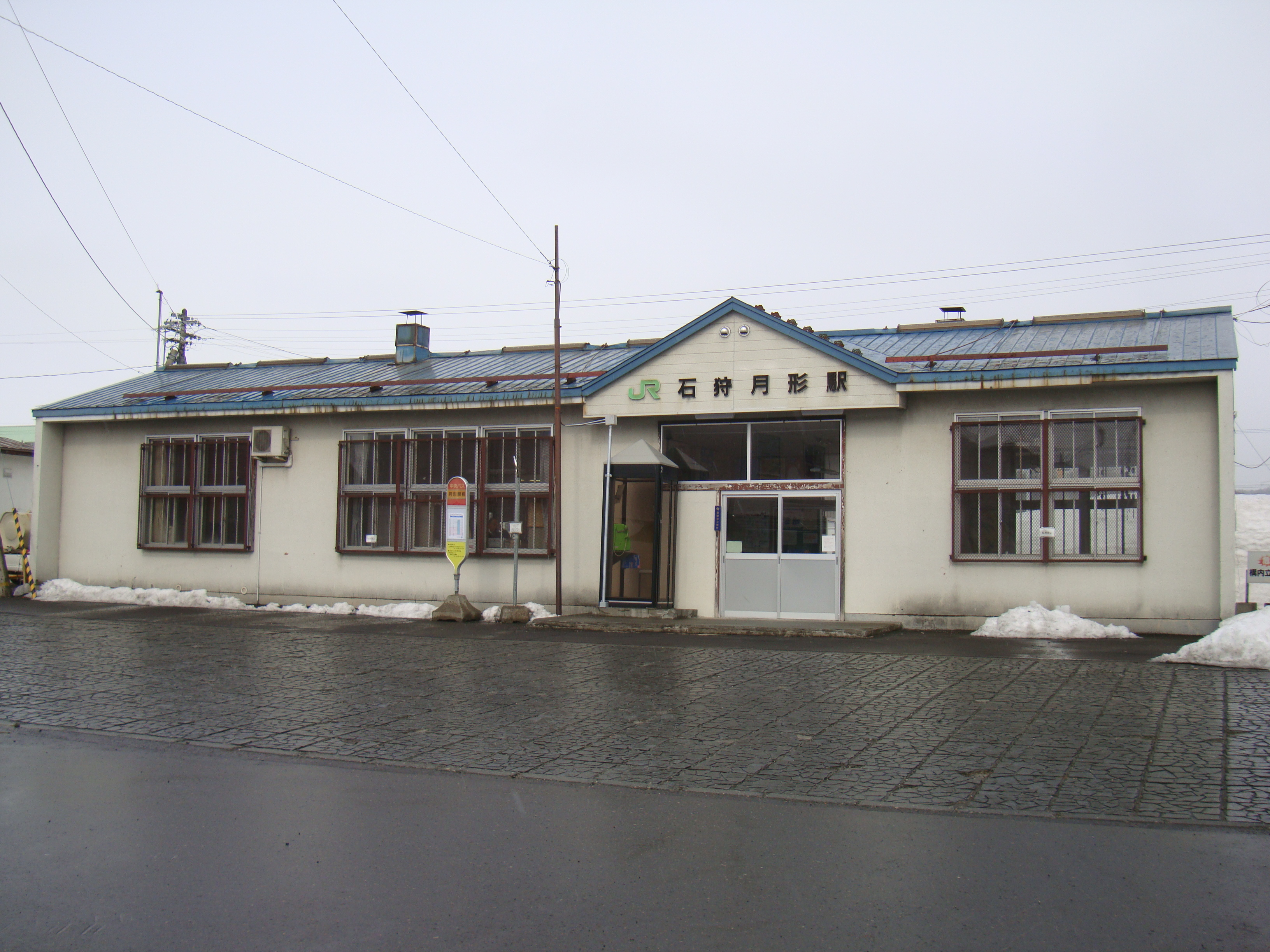 Ishikari-Tsukigata Station